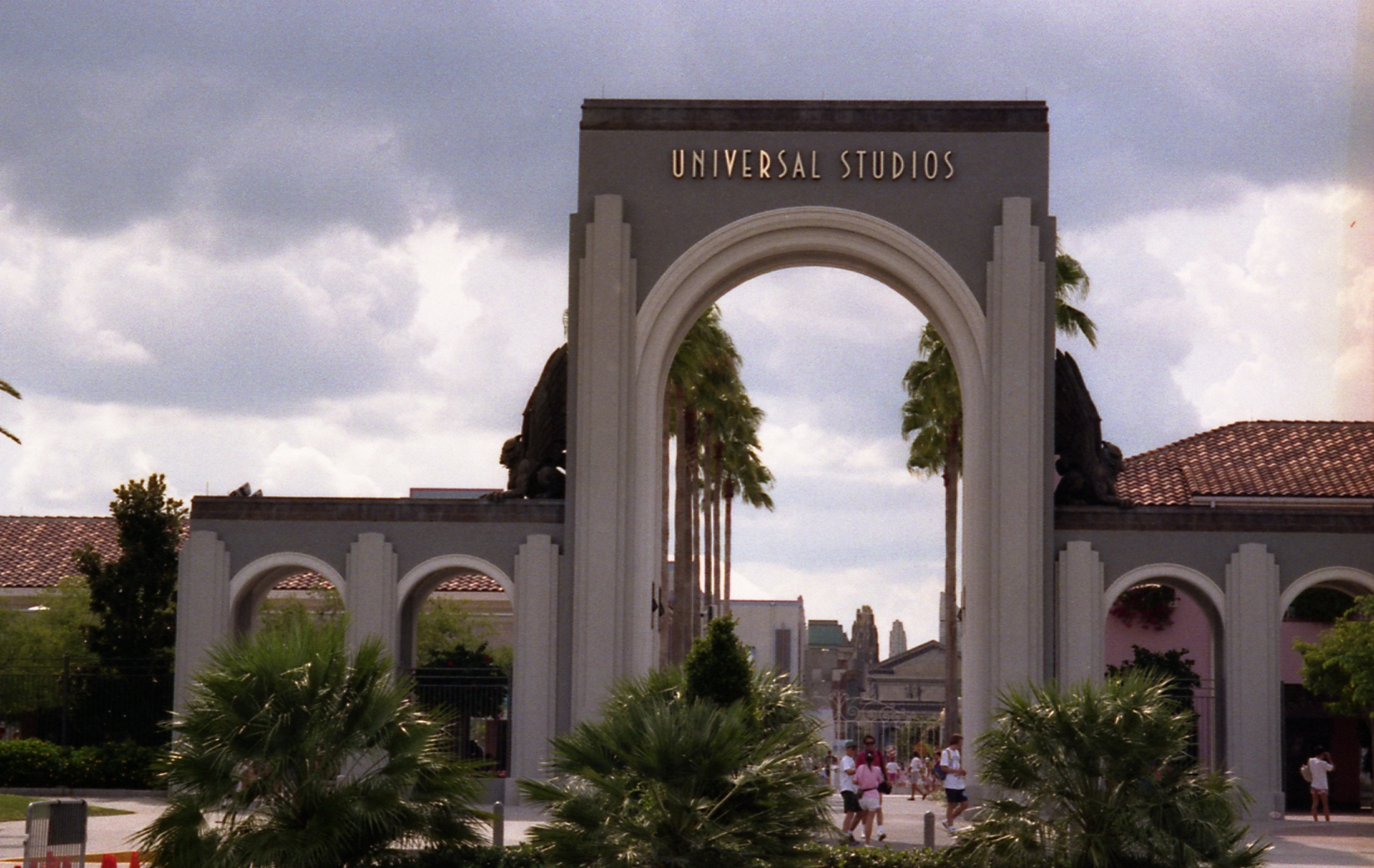 Entrance to Universal Orlando Resort